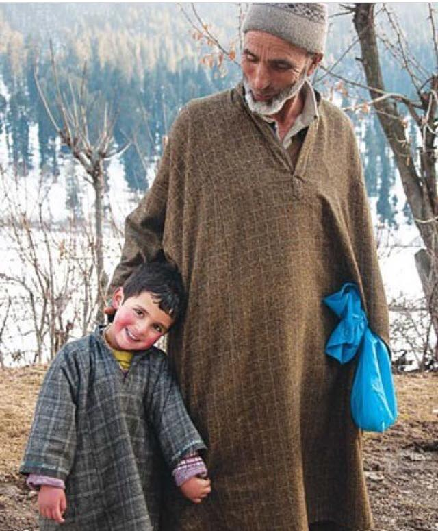 Kashmiri